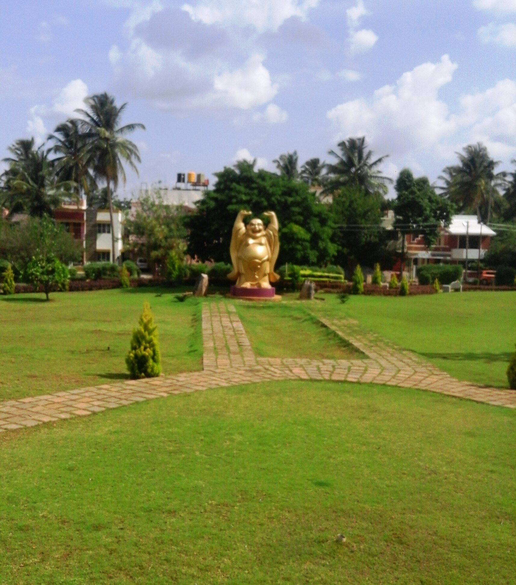 Mysore district, Karnataka state, India